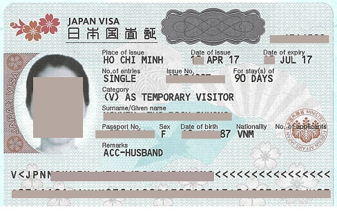 Japanese Temporary Visitor Visa with new design since 2016